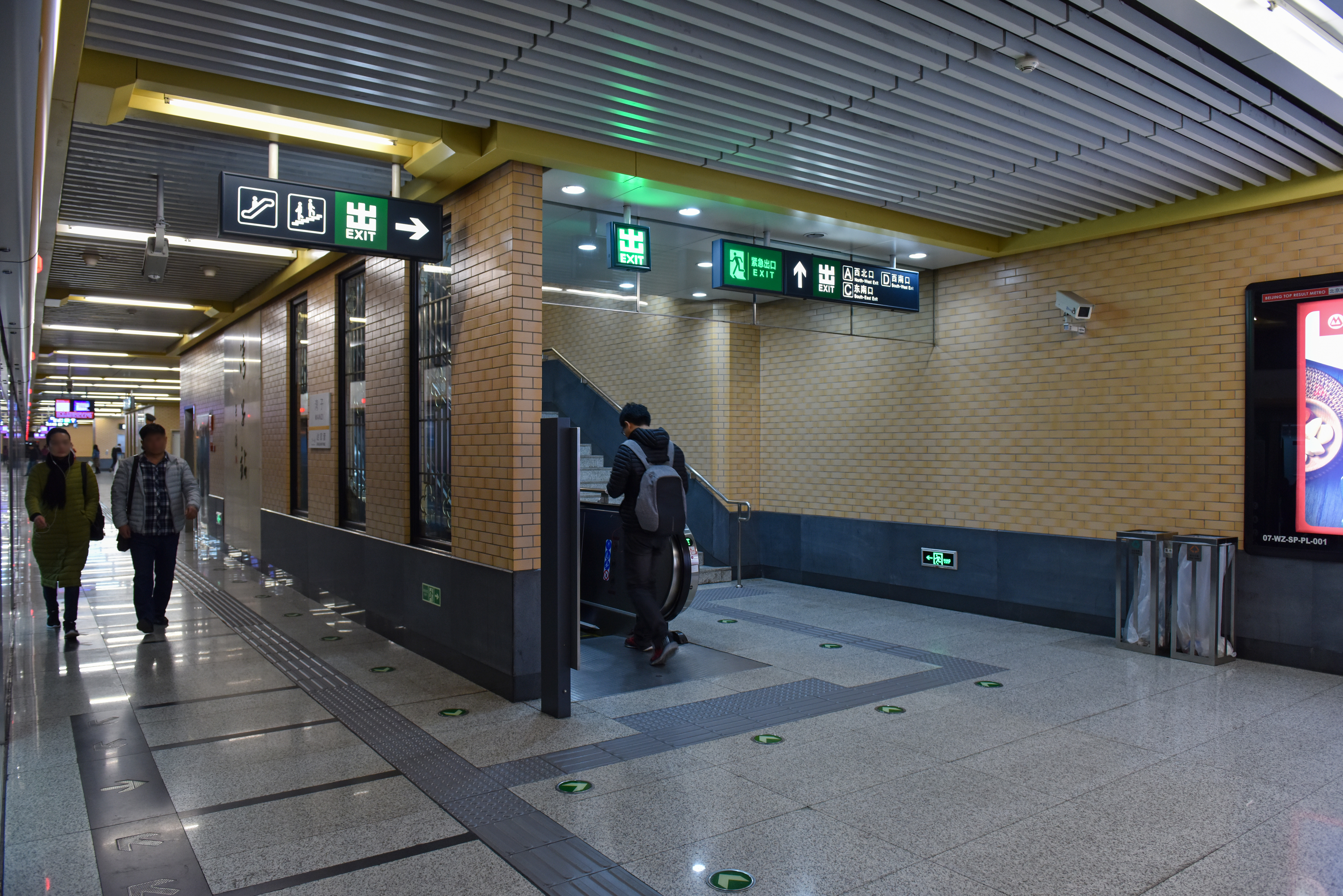 Not to be confused with Wanzhi (31307).